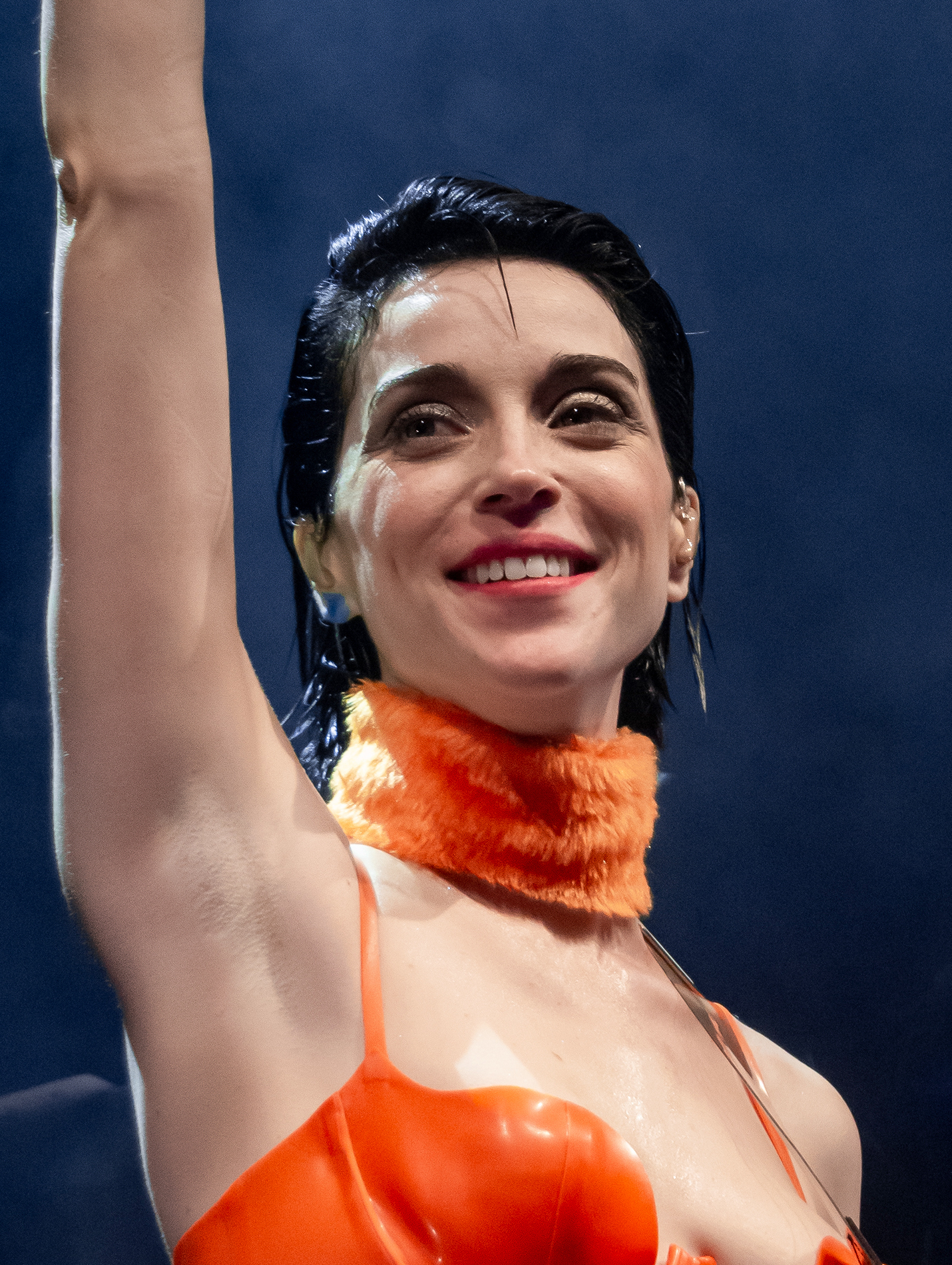 St. Vincent performing live at the Hollywood Palladium in Los Angeles, California, on Monday, October 29, 2018.